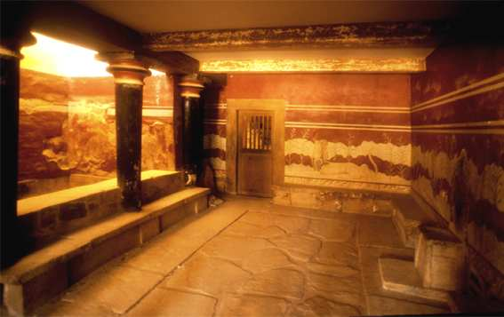 Throneroom in the palace of Knossos. It is dubbed "Ariadne's throne" due to the fact that the wide bottom of the throne is believed to have been intended to seat a female